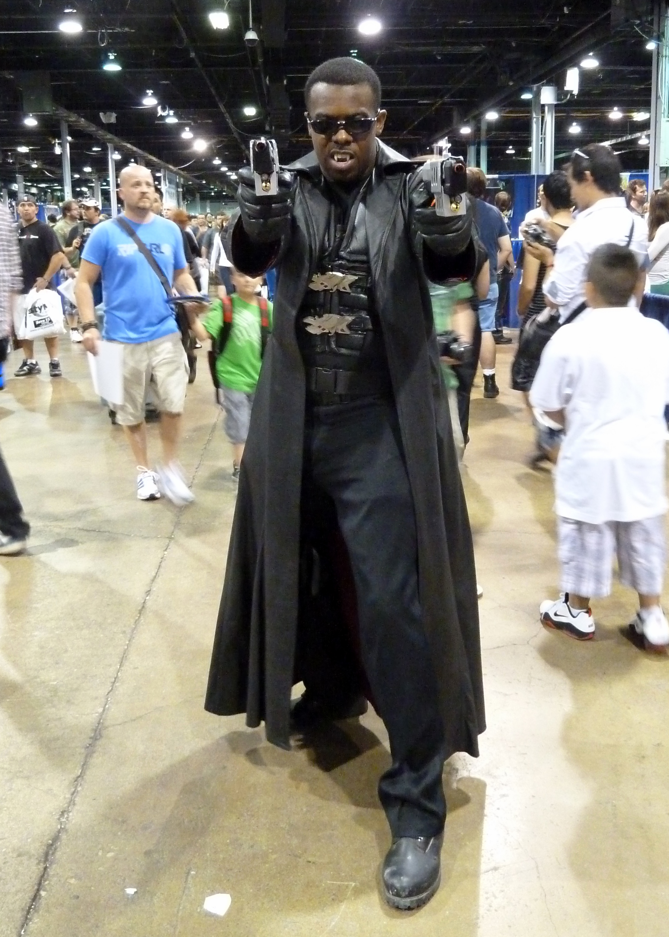 Blade Cosplay at Wizard World Chicago 2012.